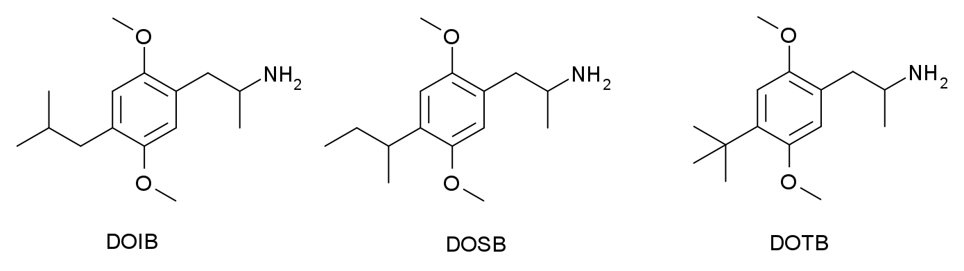 Structures of DOIB, DOSB and DOTB